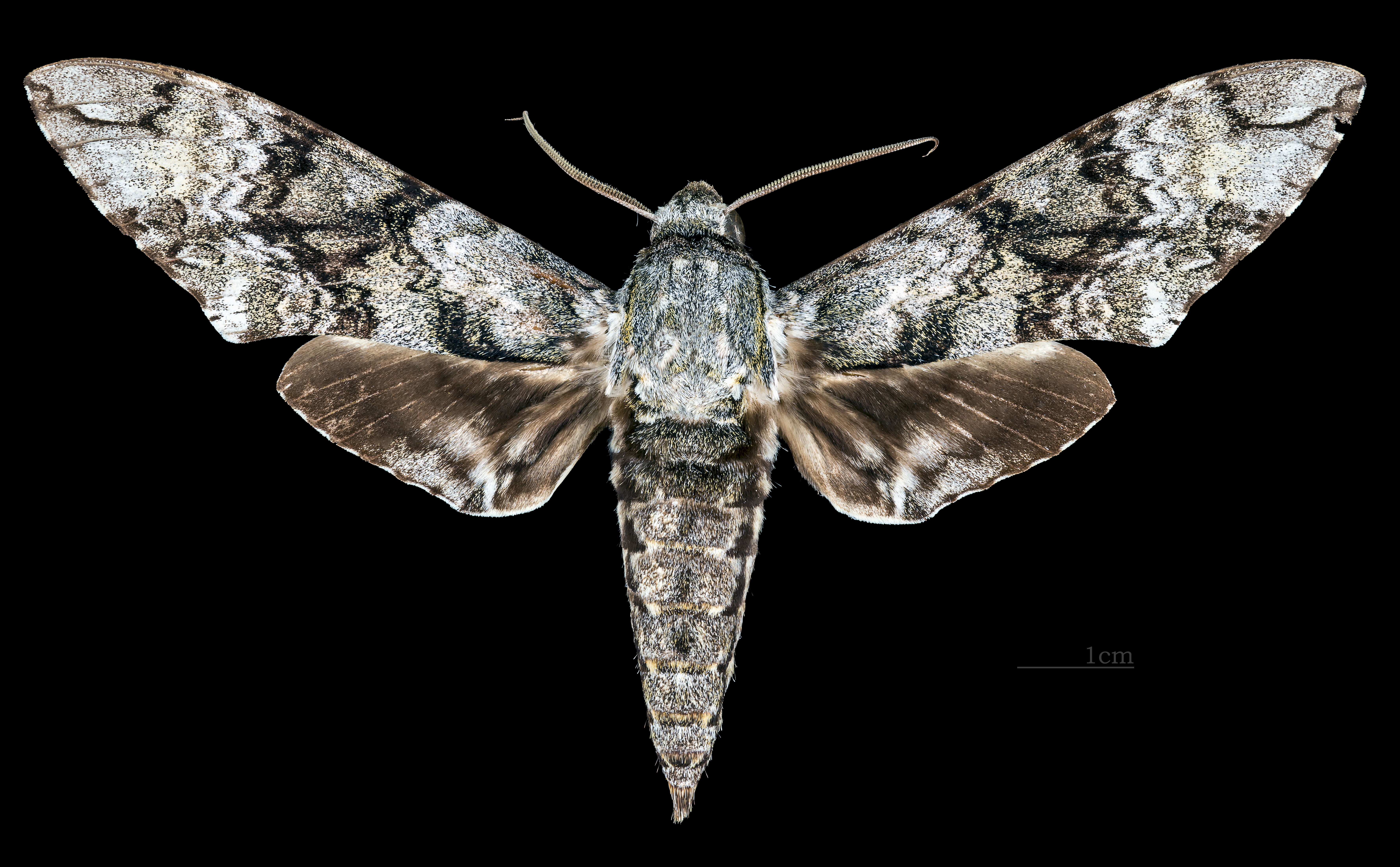 Manduca huascara - Dorsal side Collection of the Mathematician Laurent Schwartz